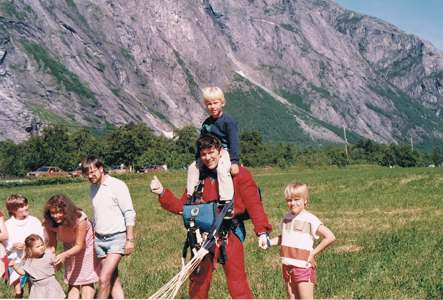 BASE jumper Carl Boenish after successful jump in Romsdalen, July 1984 (he died jumping the day after)